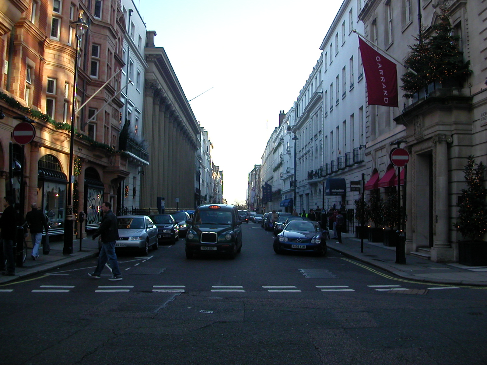 Southward view of Albemarle Street, London. Photographed on 16th December 2006.